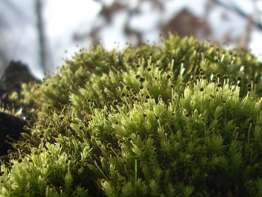 The moss Aulacomnium androgynum with gemma-bearing pseudopodia on decaying wood. Odense, Denmark.